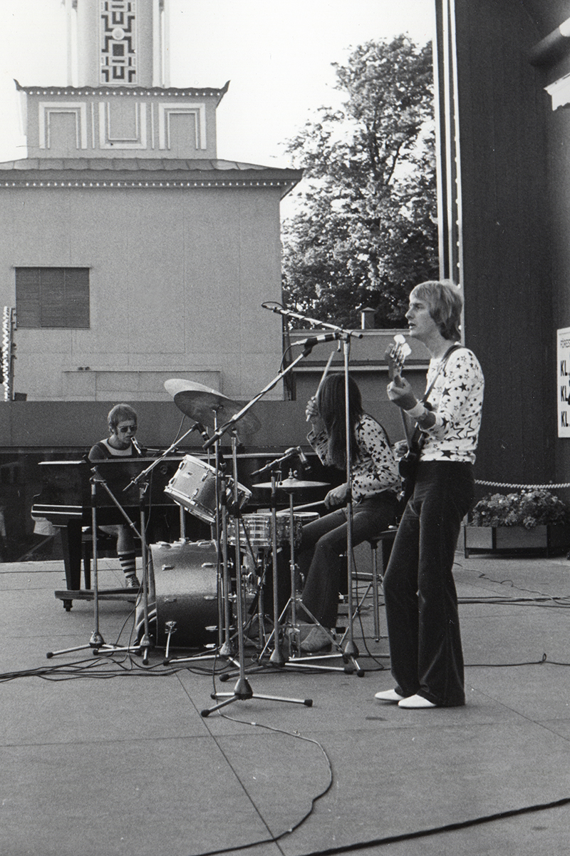 Elton John in concert with Dee Murray and Nigel Olsson, at Liseberg in Göteborg in 1971.[1]